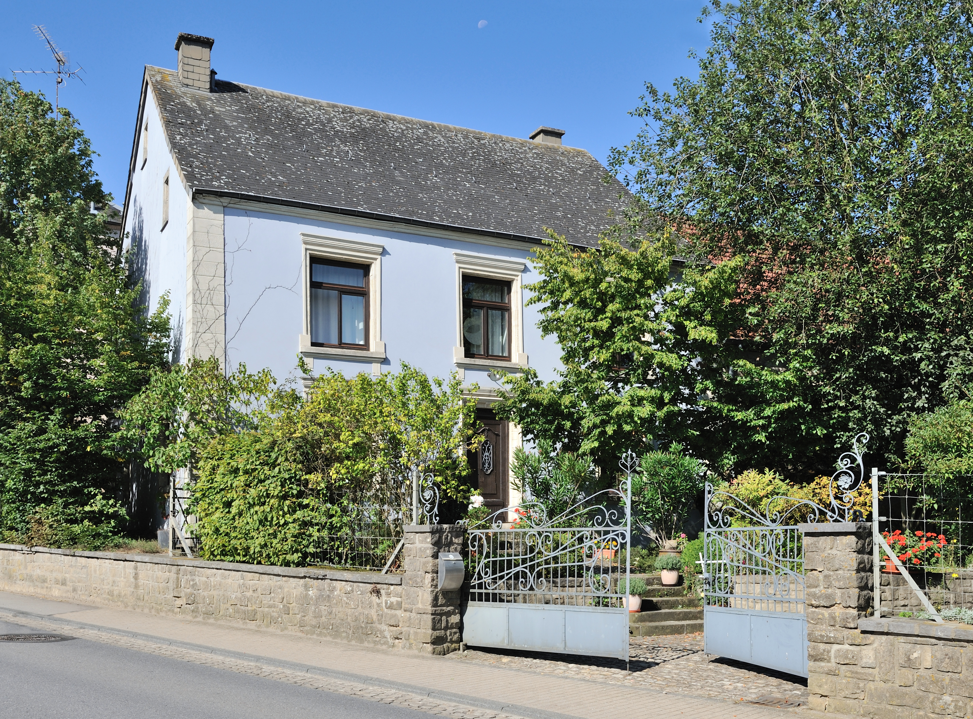 Luxembourg, Olm: house at 2, rue de Capellen. Listed as Cultural Heritage Monument since September 5 1999.